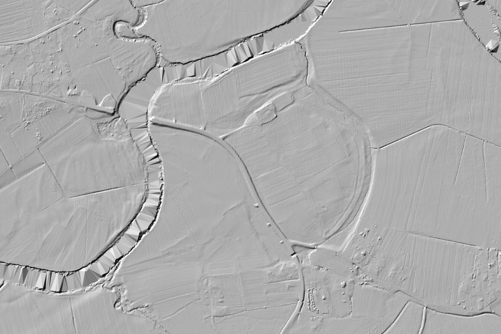 Lidar image of Drama - medieval Dobrava (Gutenwerth)